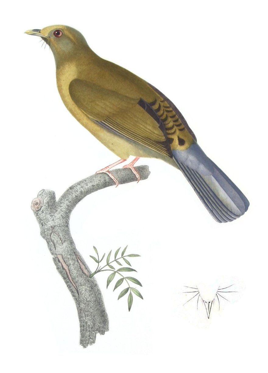 with drawing of head from above